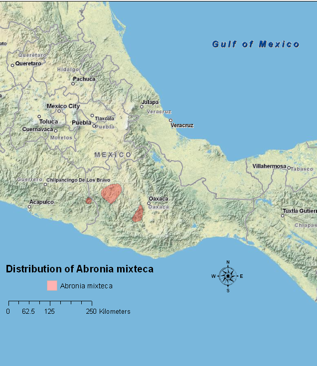 Range of Abronia mixteca